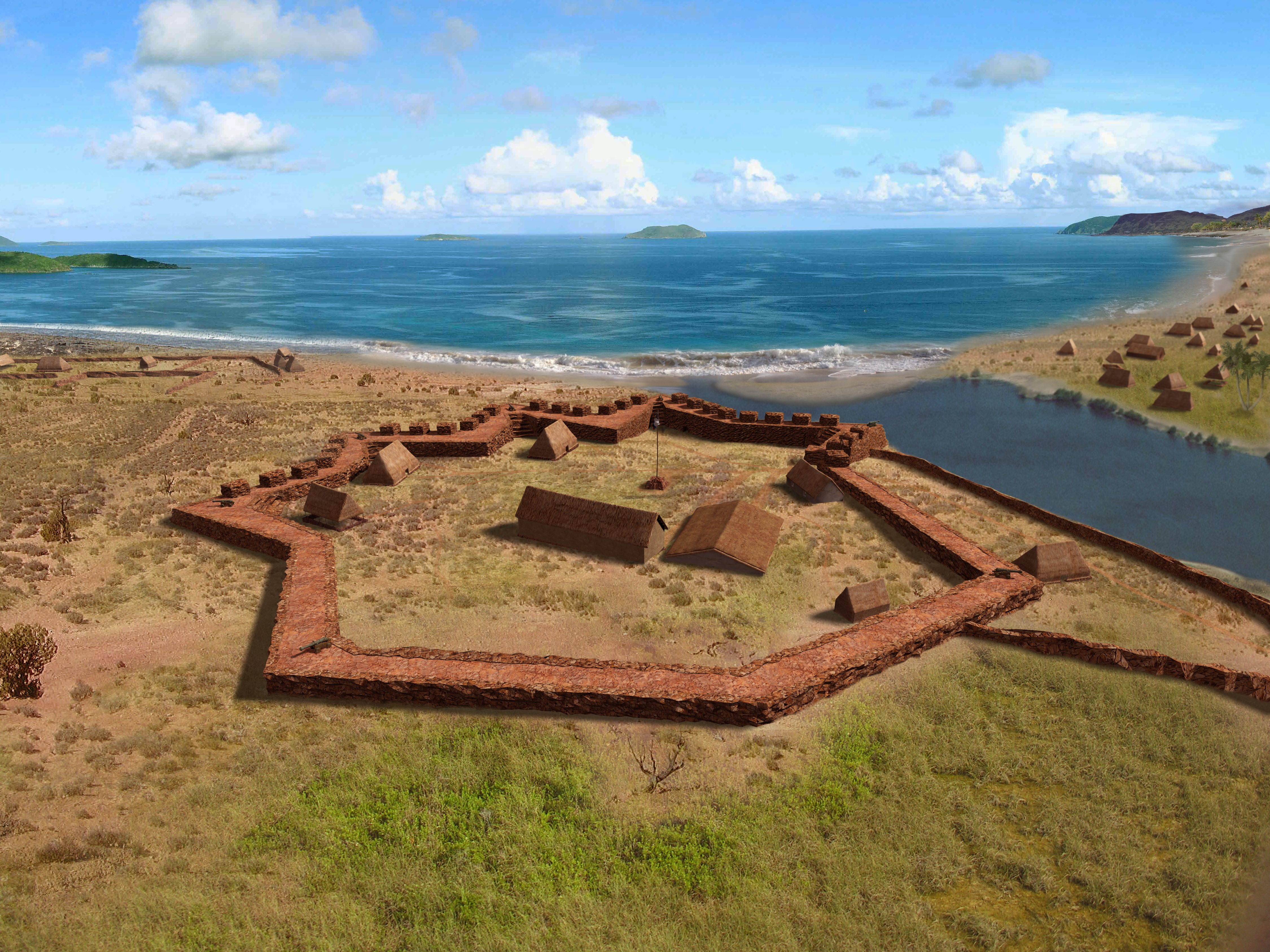 View on the fort Elizabeth (Kauai, Hawaii) from a bird's eye view. Reconstruction by Dr Alexander Molodin and Dr Peter R Mills, 2015